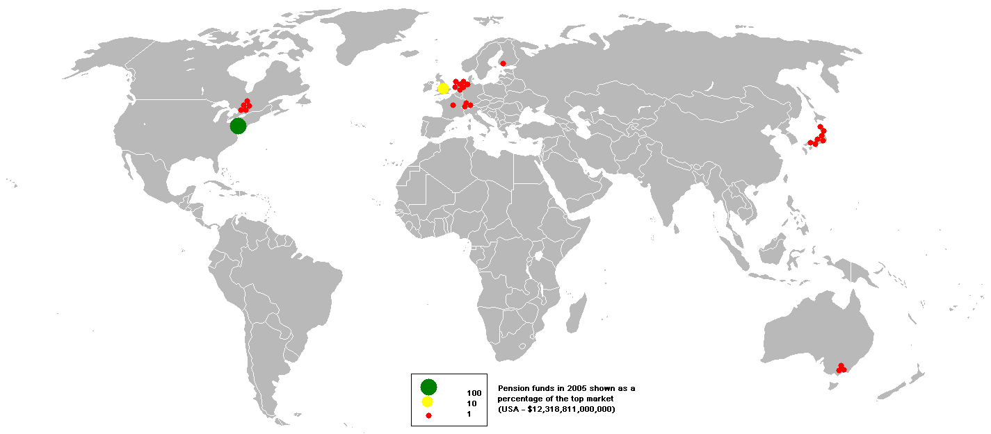 This bubble map shows the global distribution of pension funds in 2005 as a percentage of the top market (USA - $12,318,811,000,000). This map is consistent with incomplete set of data too as long as the top market is known. It resolves the accessibility issues faced by colour-coded maps that may not be properly rendered in old computer screens. Data was extracted on 1st July 2007 from Based on :Image:BlankMap-World.png